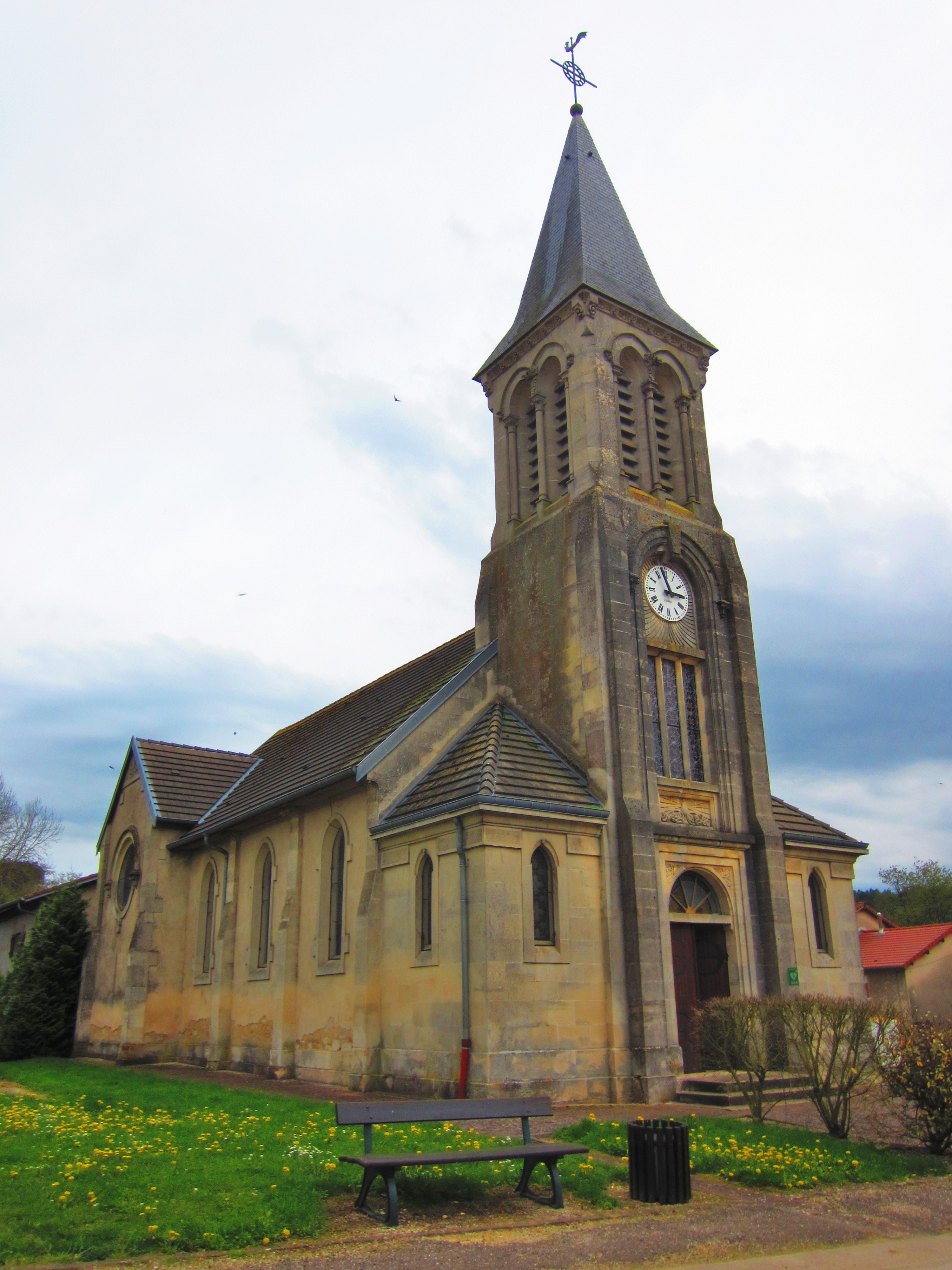 Les Eparges church